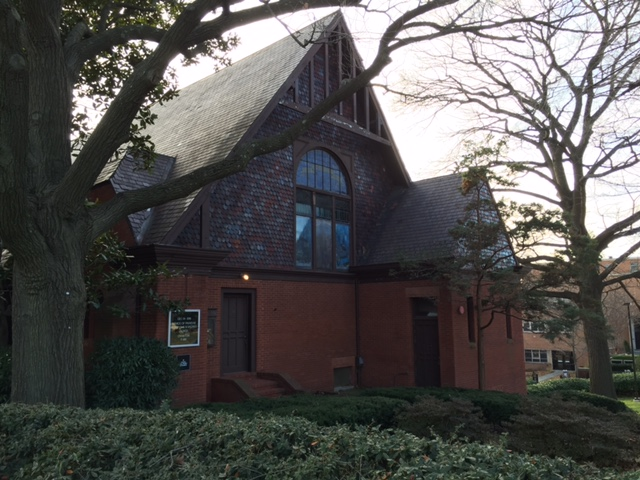 Andrew Rankin Memorial Chapel